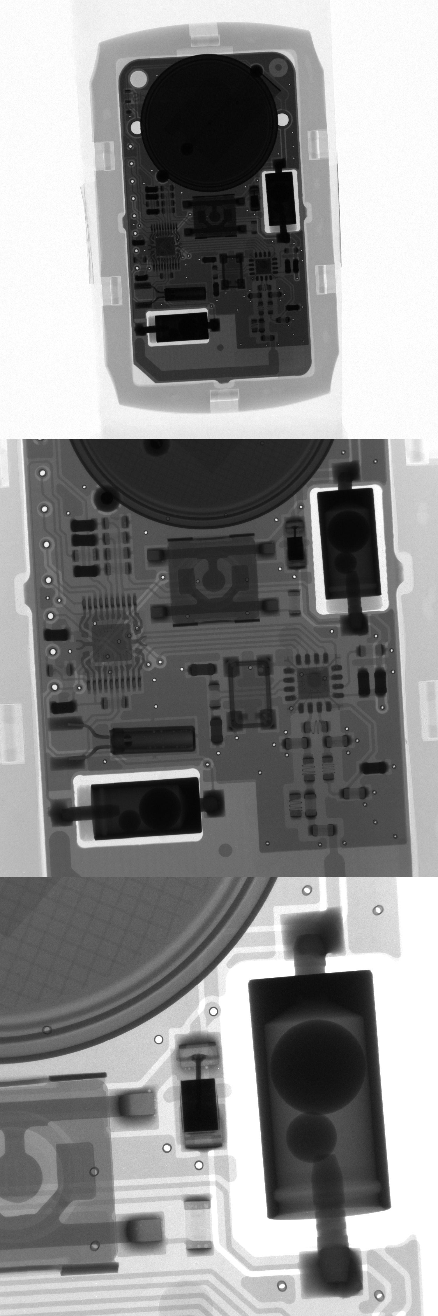 X-ray image of an arm wrist accelerometer motion-sensor of a sleep phase alarm clock made by Austrian company Axbo.